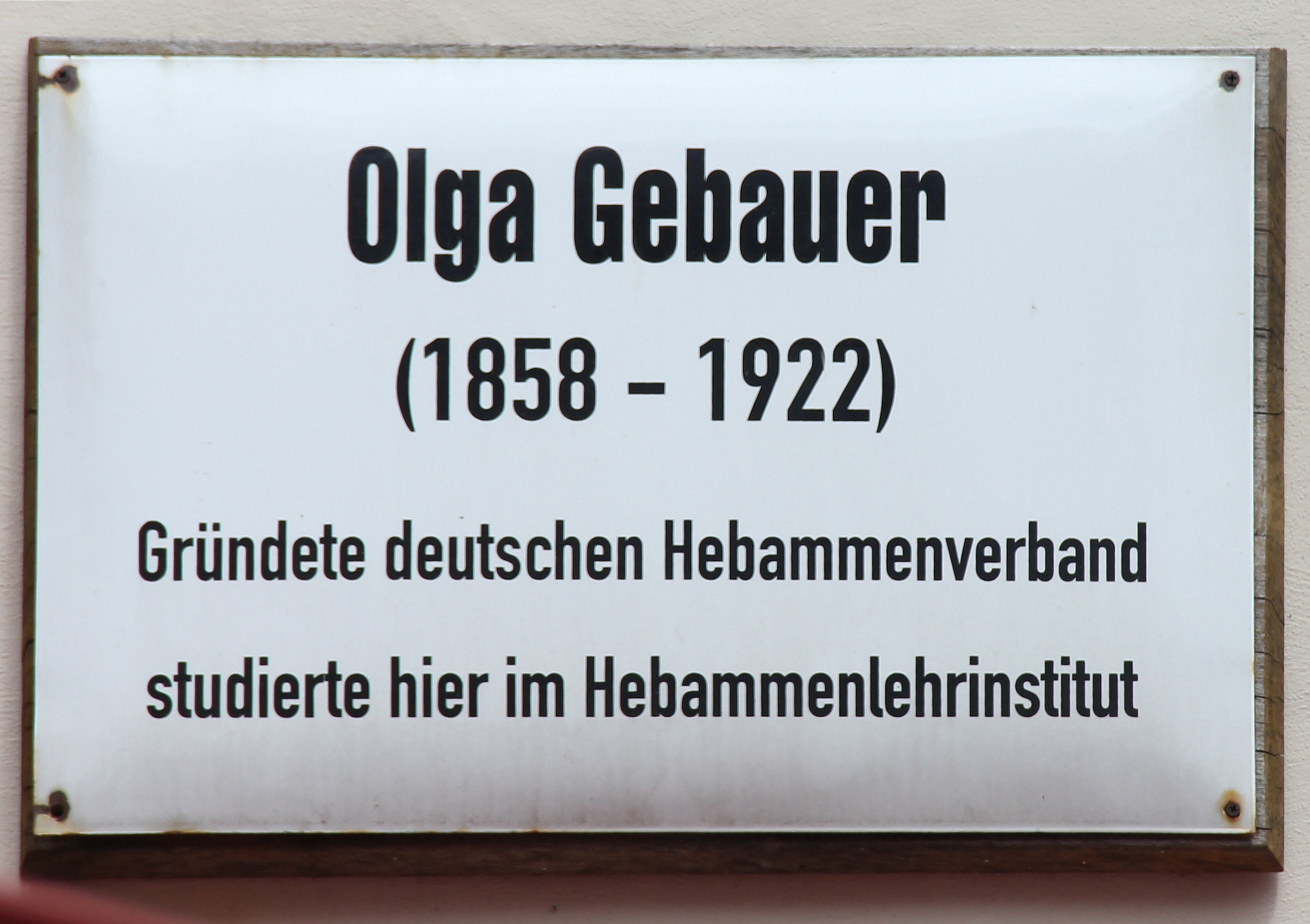 Memorial plaque, Olga Gebauer, Schloßplatz , Lutherstadt Wittenberg, Germany Koordinate:51°51′59″N 12°38′18″E / 51.86639°N 12.63833°E